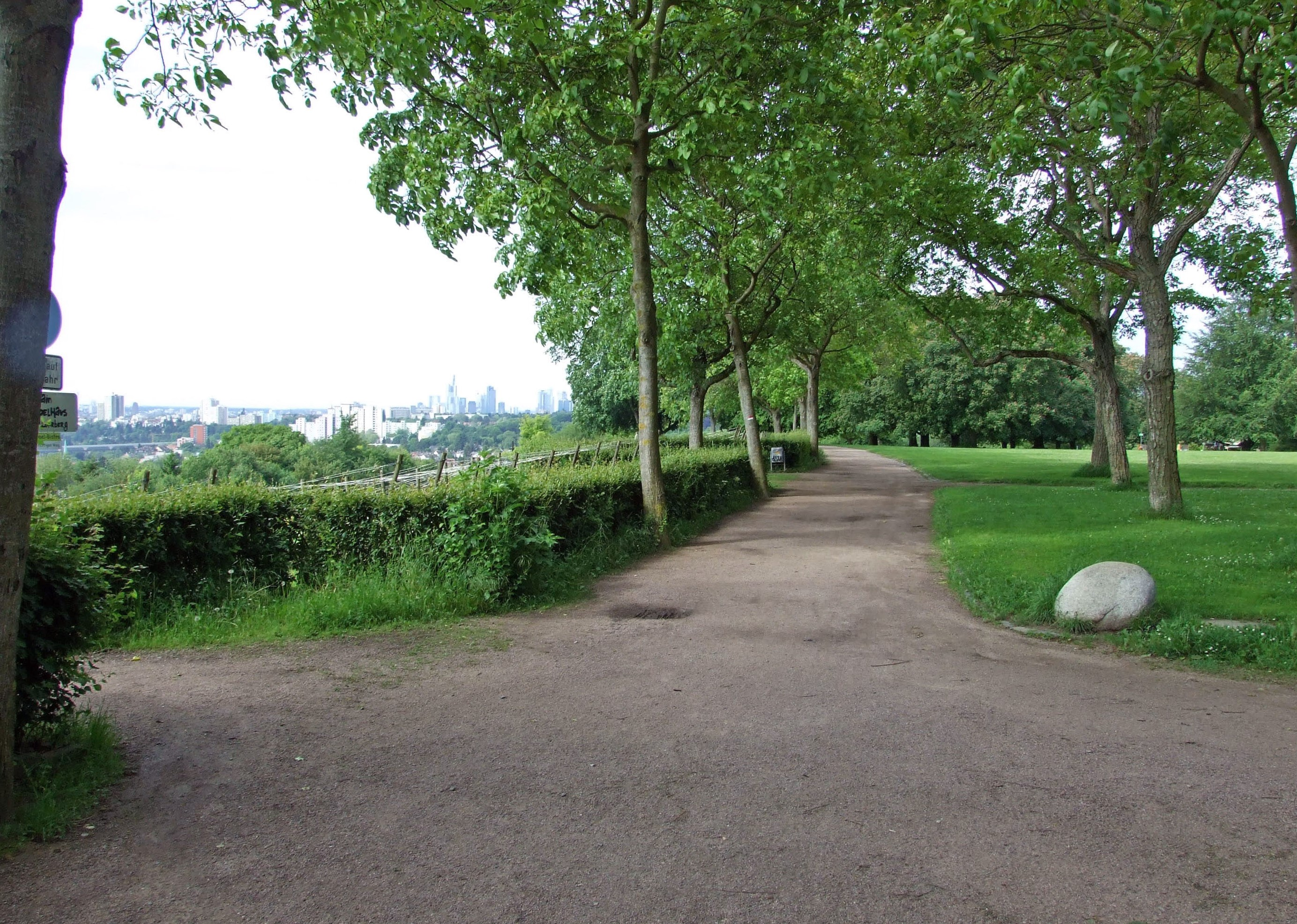 "Lohrberg" panorama-way, top of the vineyard in Frankfurt am Main-Seckbach